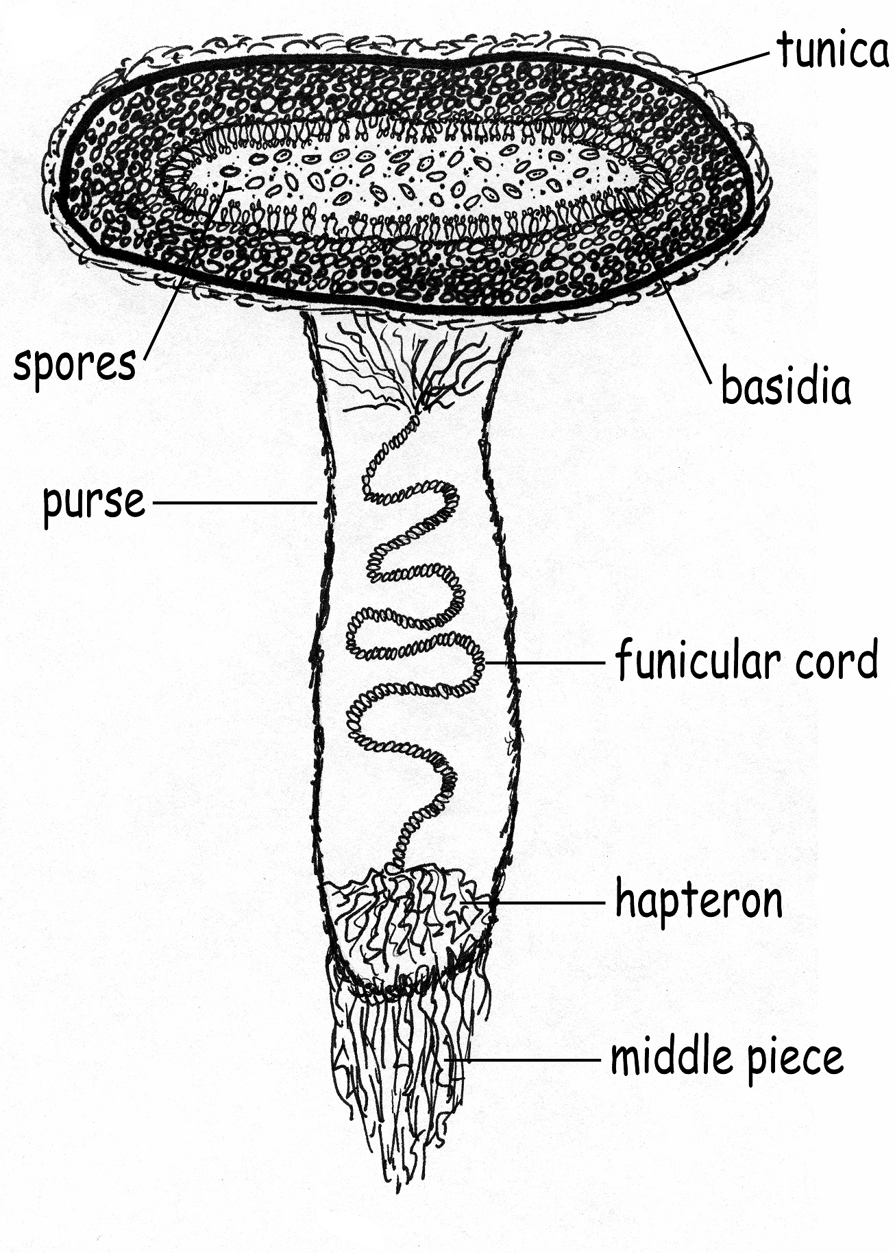 Diagram of a cross-section of a peridiole as found in the Cyathus genus of fungi (family: Nidulariaceae). Image hand-drawn, labels added with Adobe Illustrator.